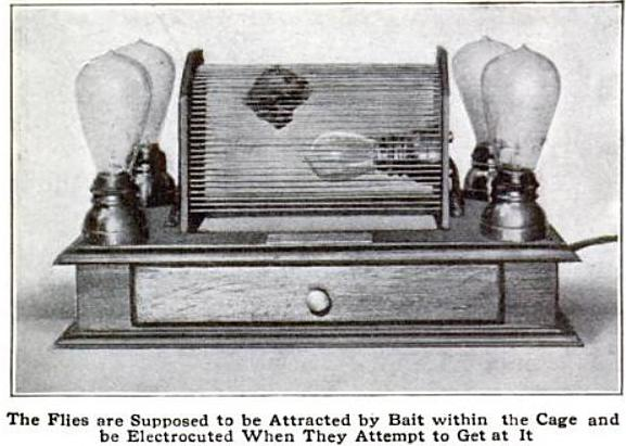 Photograph of a early prototype bug zapper circa 1911 designed to attract and kill flies.